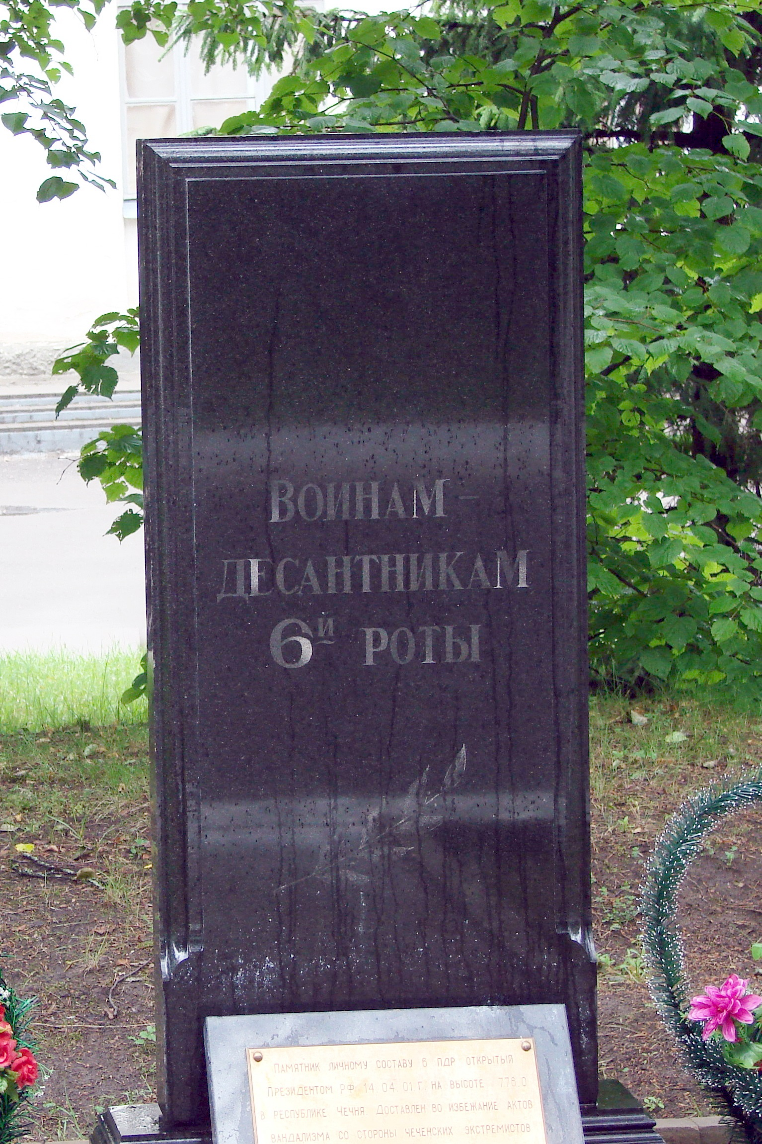 Monument honoring paratroopers of the 6th Company, 2nd Battalion, 104th Paratrooper Regiment of the 76th (Pskov) Guards Airborne Division who died in the Battle for Height 776